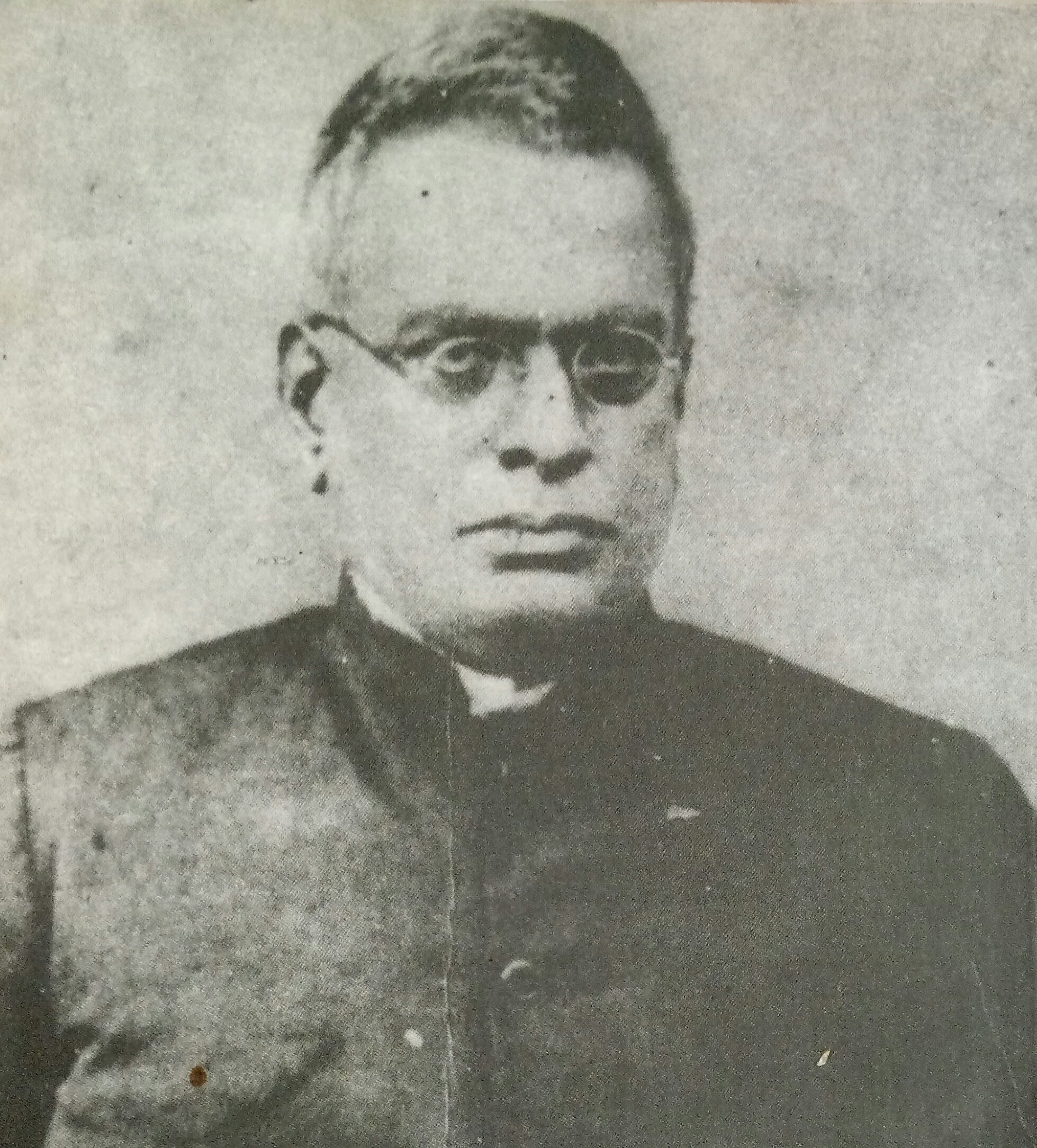 Pokala Lakshmi Narasu (1861-1934) was an Indian author, professor and Buddhist philosopher.